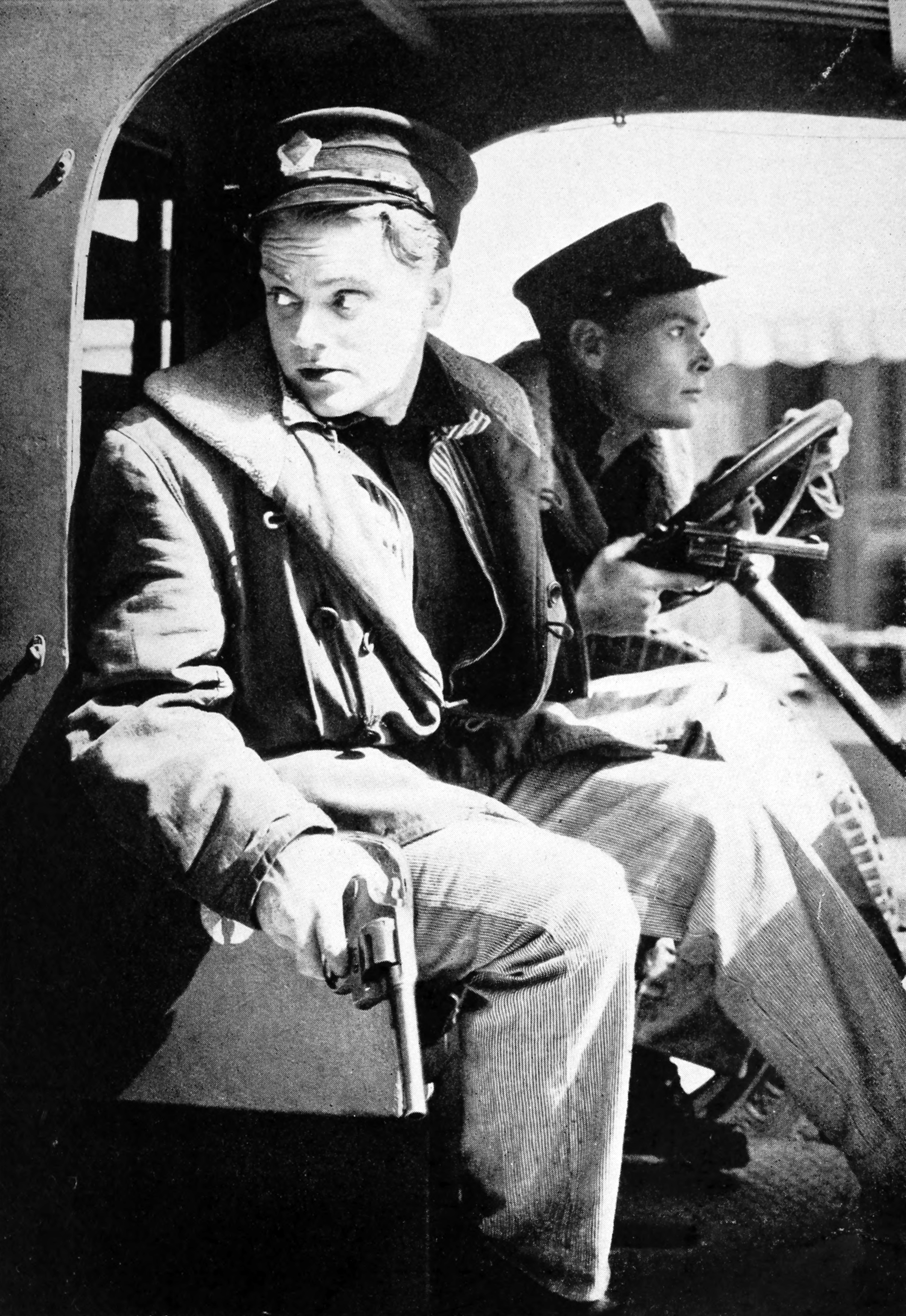 Promotional photograph of James Cagney and Edward Woods in the film The Public Enemy